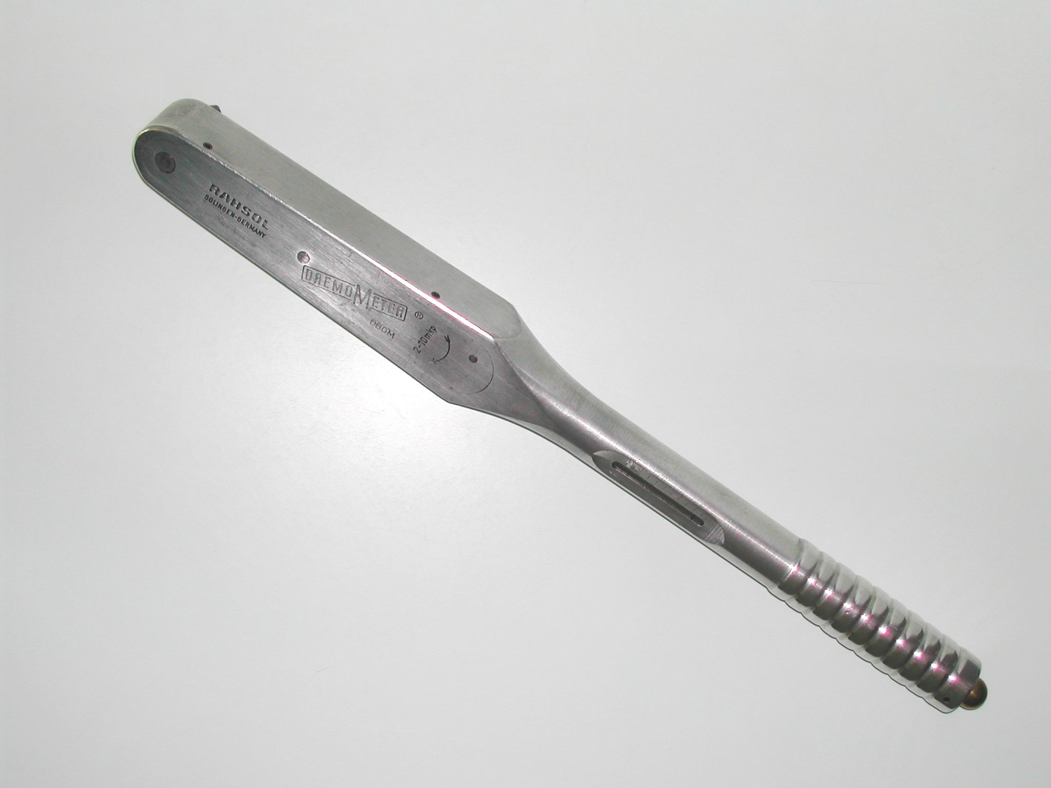 Rahsol torque wrench 2-10 Nm